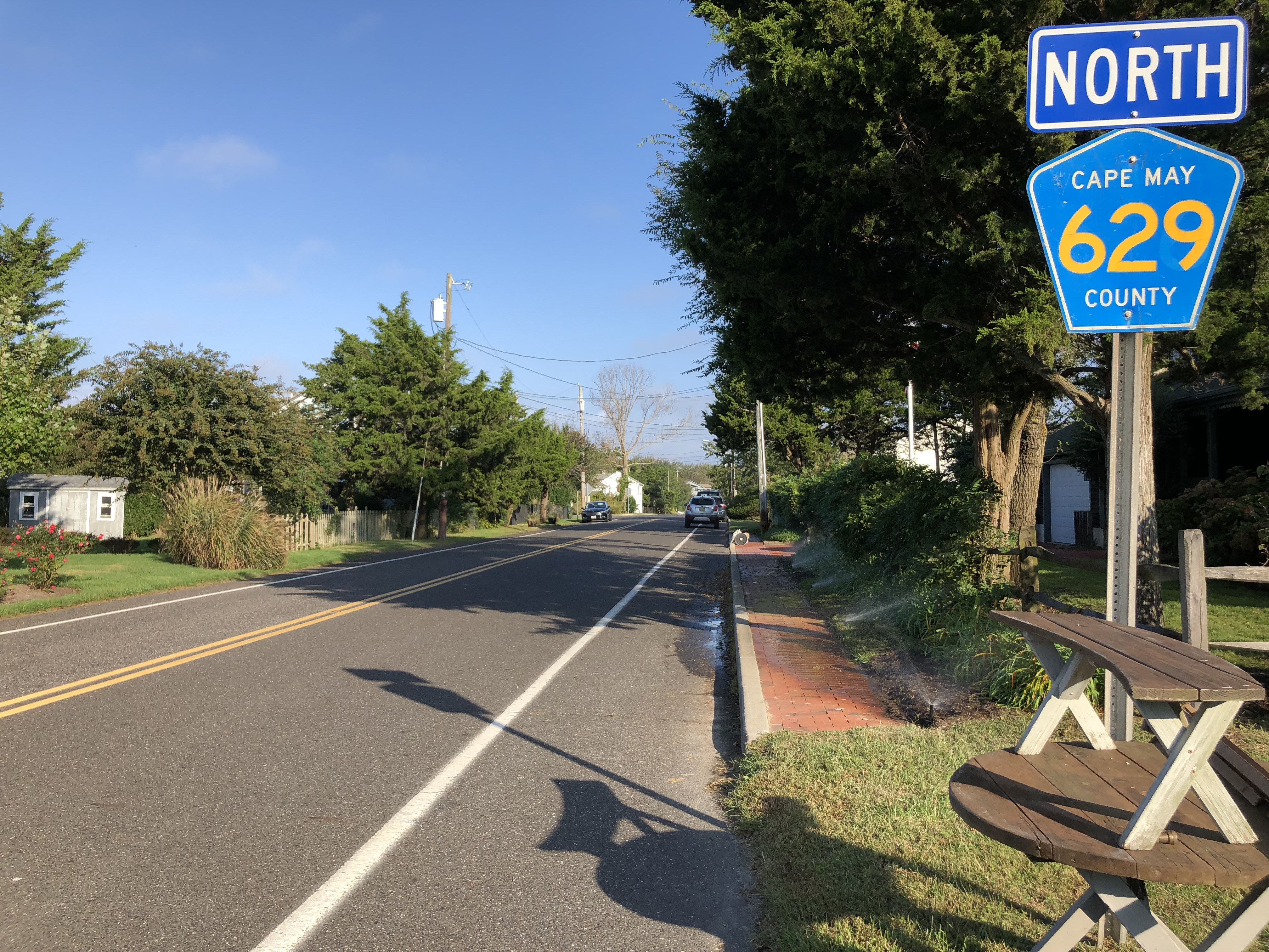 View north along Cape May County Route 629 (Lighthouse Avenue) just north of Cape May County Route 651 (Lincoln Avenue) in Cape May Point, Cape May County, New Jersey